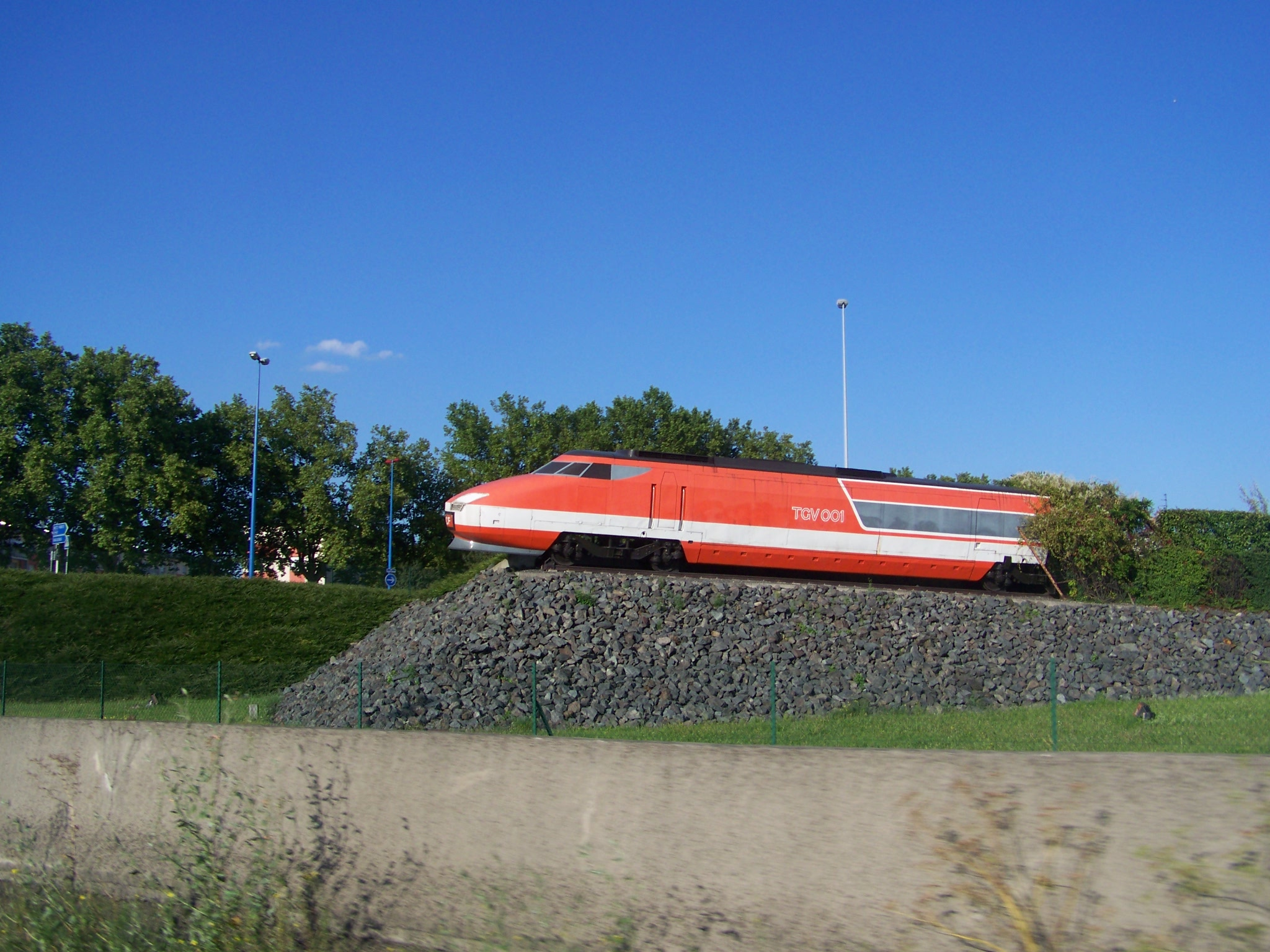 Gas turbine-electric locomotive of TGV 001 (built in the early 70s), here preserved on the commune of Bischheim near Strasbourg in Alsace, France.